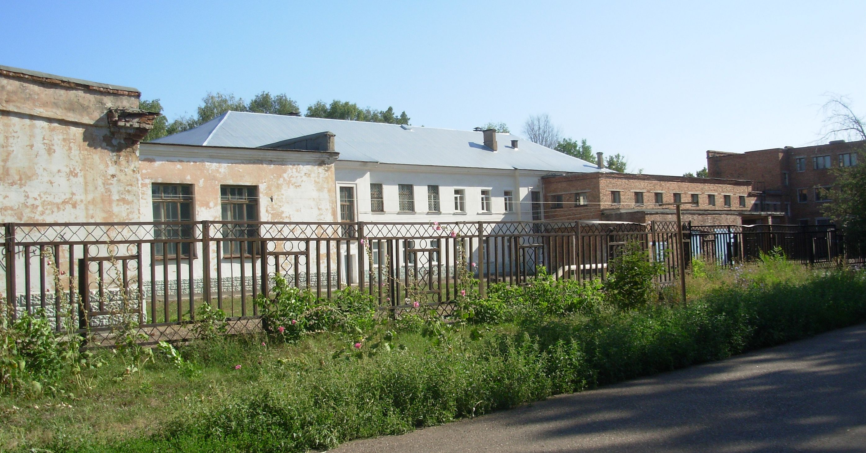 Двор школы №1 в Салавате